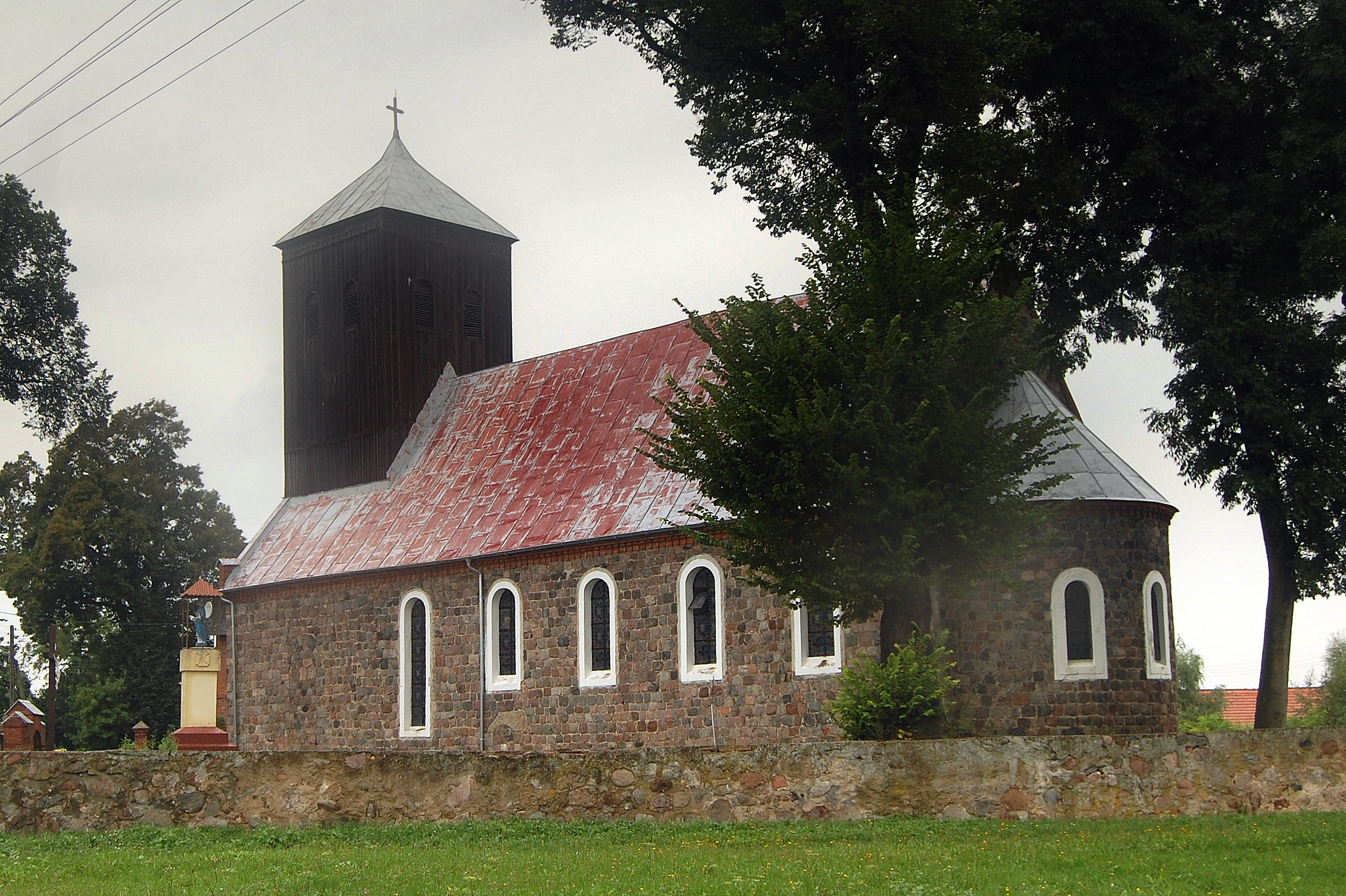 Church in Piaseczno (discrist Banie, Poland)